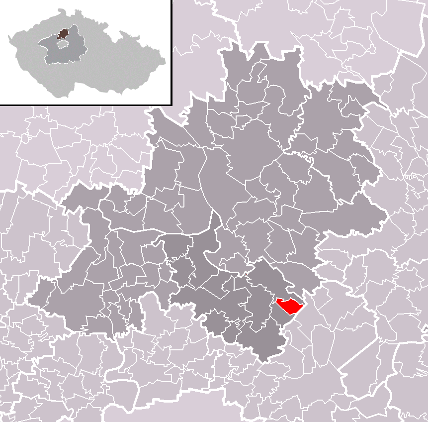 Location of Nedomice municipality within Mělník District and administrative area of Neratovice as a Municipality with Extended Competence.